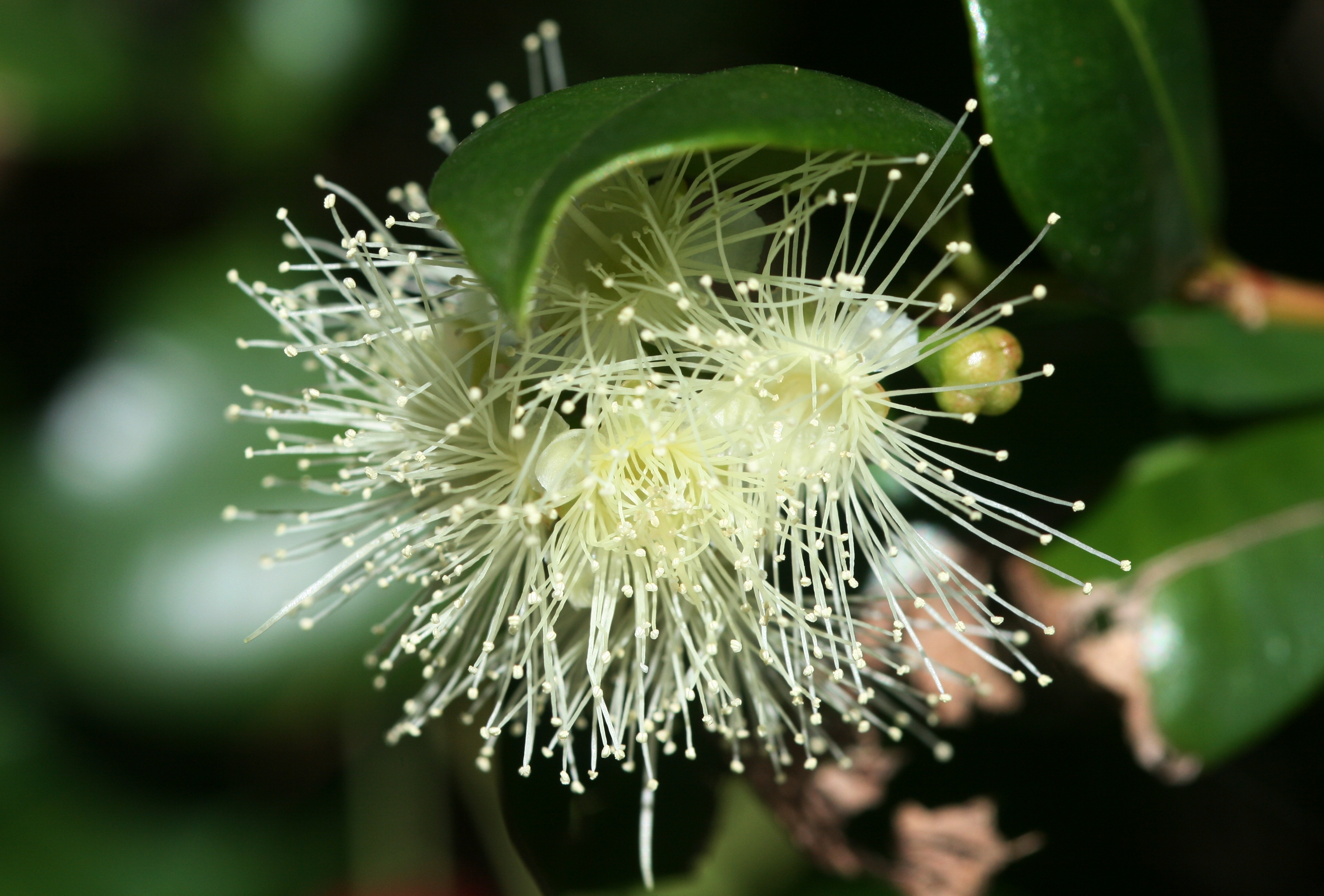 Syzygium australe (Scrub Cherry) cultivated near Toowoomba, Queensland, Australia. Photographed on 13 April 2009.